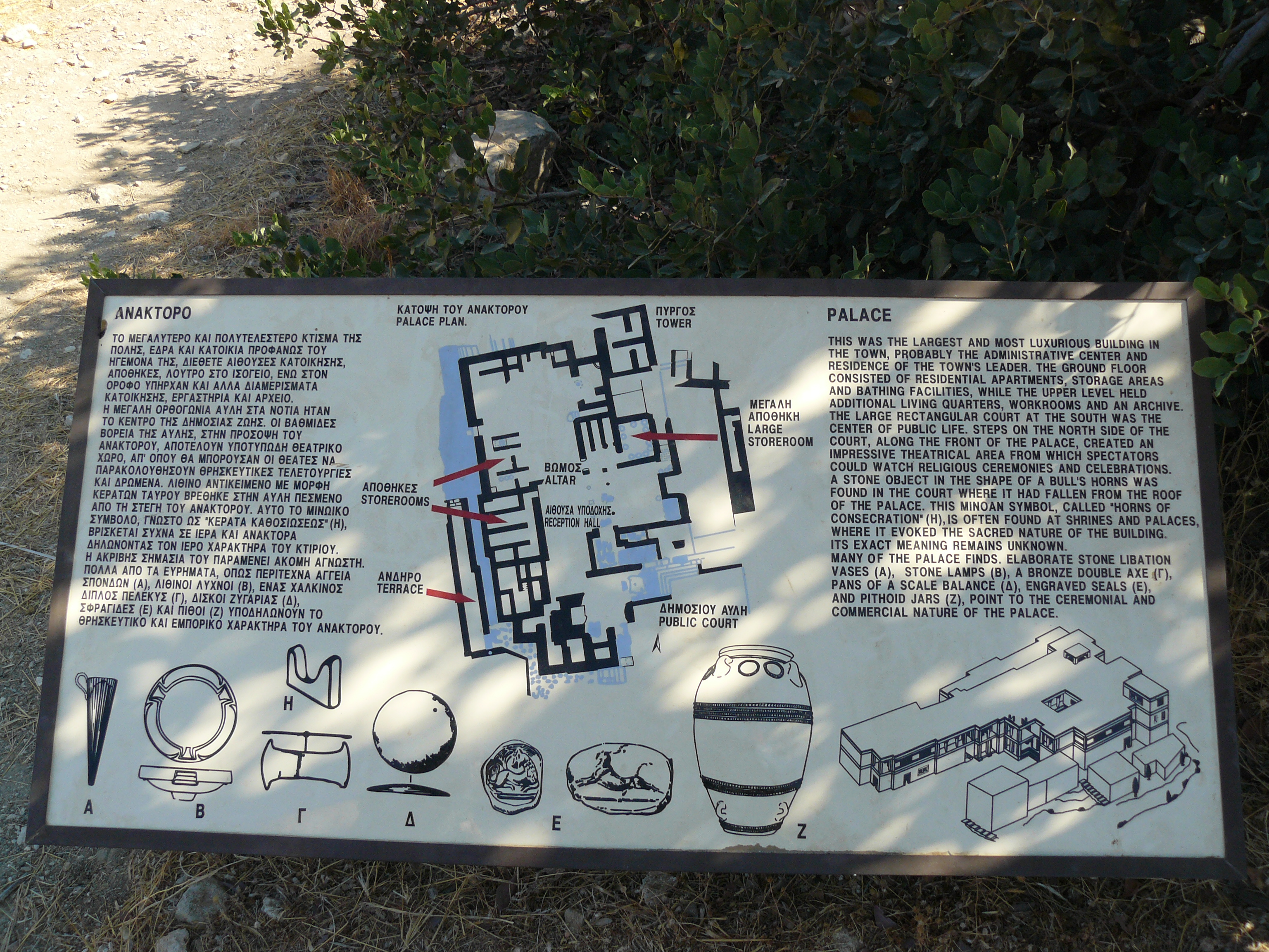 Plan of the Palace of Gournia. Information panel on the archaeological site.